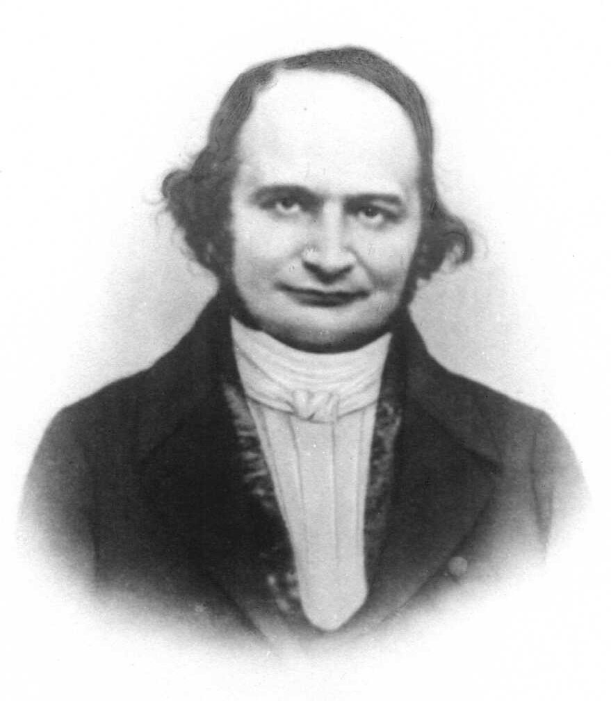 Carl Gustav Jacob Jacobi was not only a great German mathematician but also considered by many as the most inspiring teacher of his time.